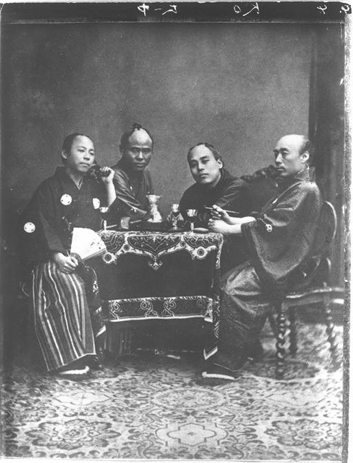 From left: Sakutaro Fukuda, Genzaburo Ohta, Yukichi Fukuzawa, Sadataro Shibata. Taken in Holland in 1862 (Bunkyū 2).